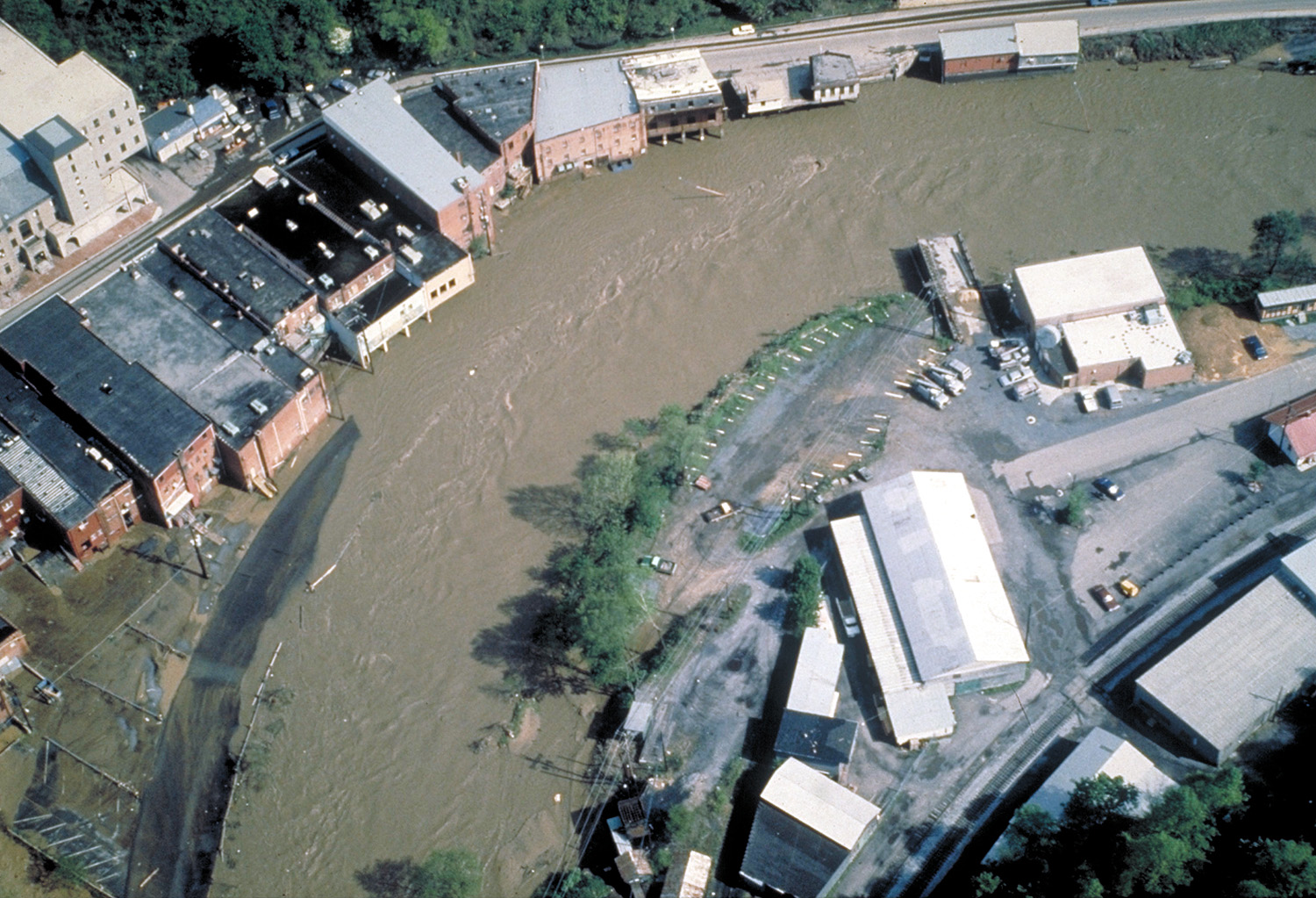 Aerial view of flooding on the Levisa Fork River in Grundy, Virginia, USA, in 1984. The town of Grundy, the State of Virginia, and the U.S. Army Corps of Engineers are cooperating in a project to relocate the business center of the town away from the flood-prone areas along the river.